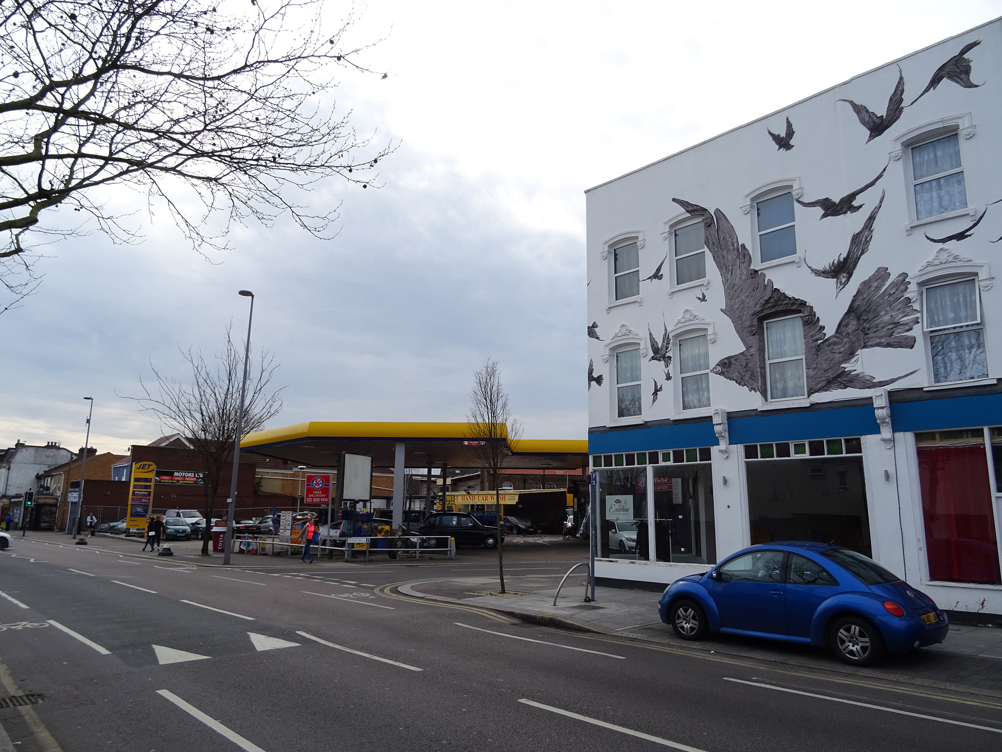 Site of 517 High Road, Leytonstone, London, E11 3EE, birthplace of Alfred Hitchcock. Where the gas station now stands was a row of houses and a grocer's shop, where Hitchcock's family lived and worked, and where, according to several biographers, Hitchcock was born. The houses on the right display a mural from The Birds (1963). In 2014, Mateusz J. Odrobny and Anna Mill painted the mural on the properties running from 527 to 533 High Road.